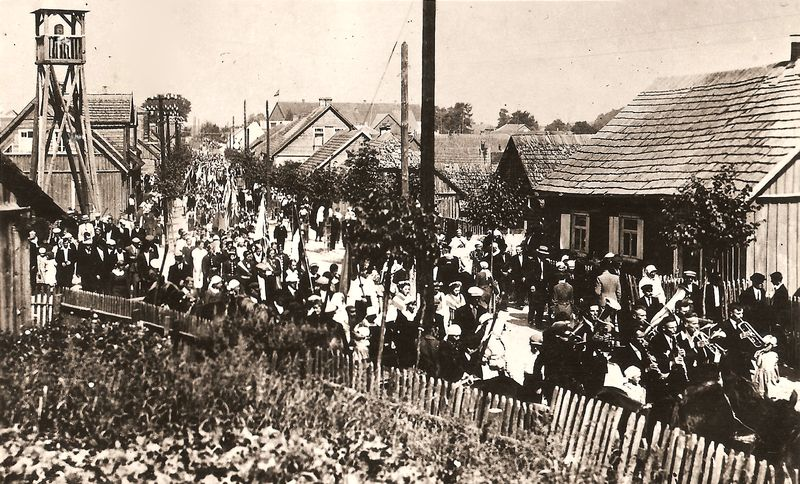 Procession on the main street in Kražiai at the 40th anniversary of Kražiai Massacre